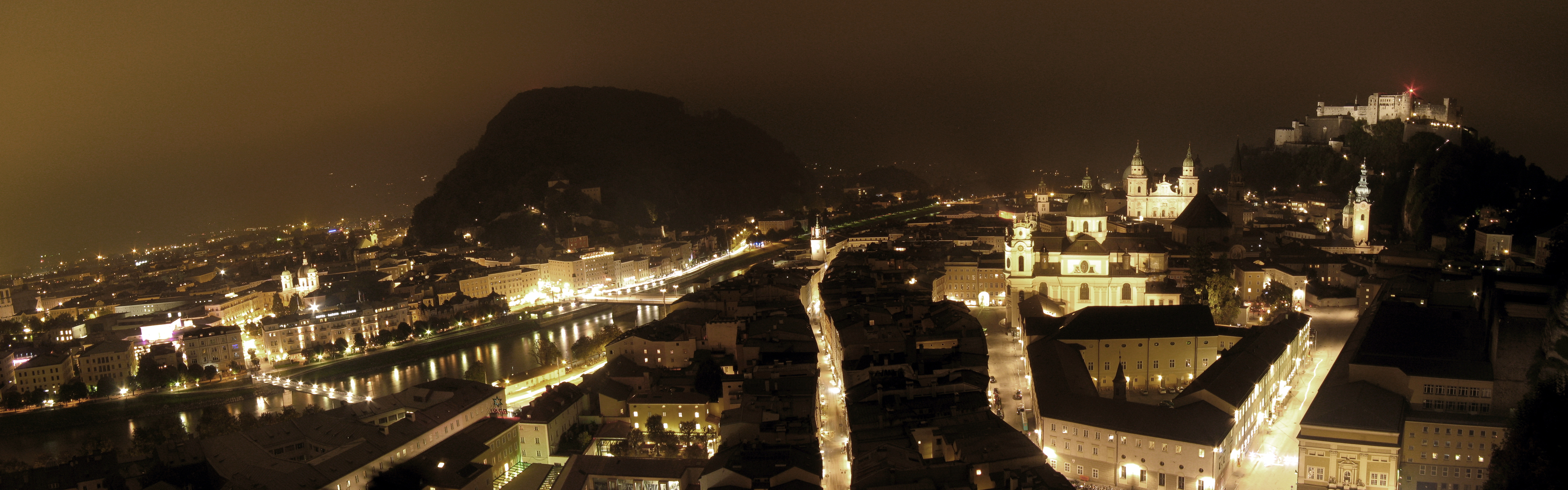 Nocturnal long exposure panorama of Salzburg (white balance / levels adjusted) - stiched from 4 indevidual 15s exposure.